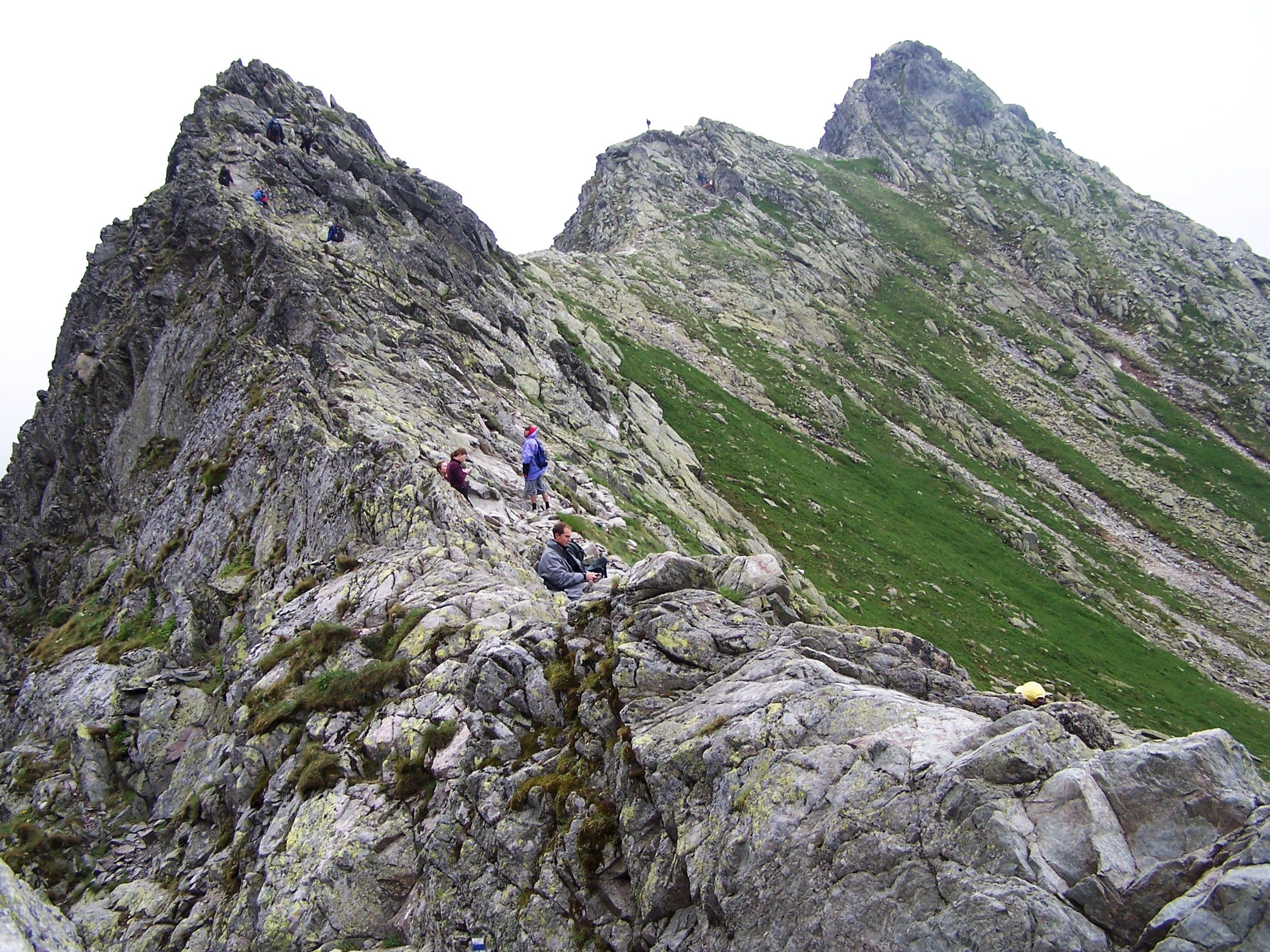 Mały Kozi Wierch (Orla Perć, High Tatra Mountains)